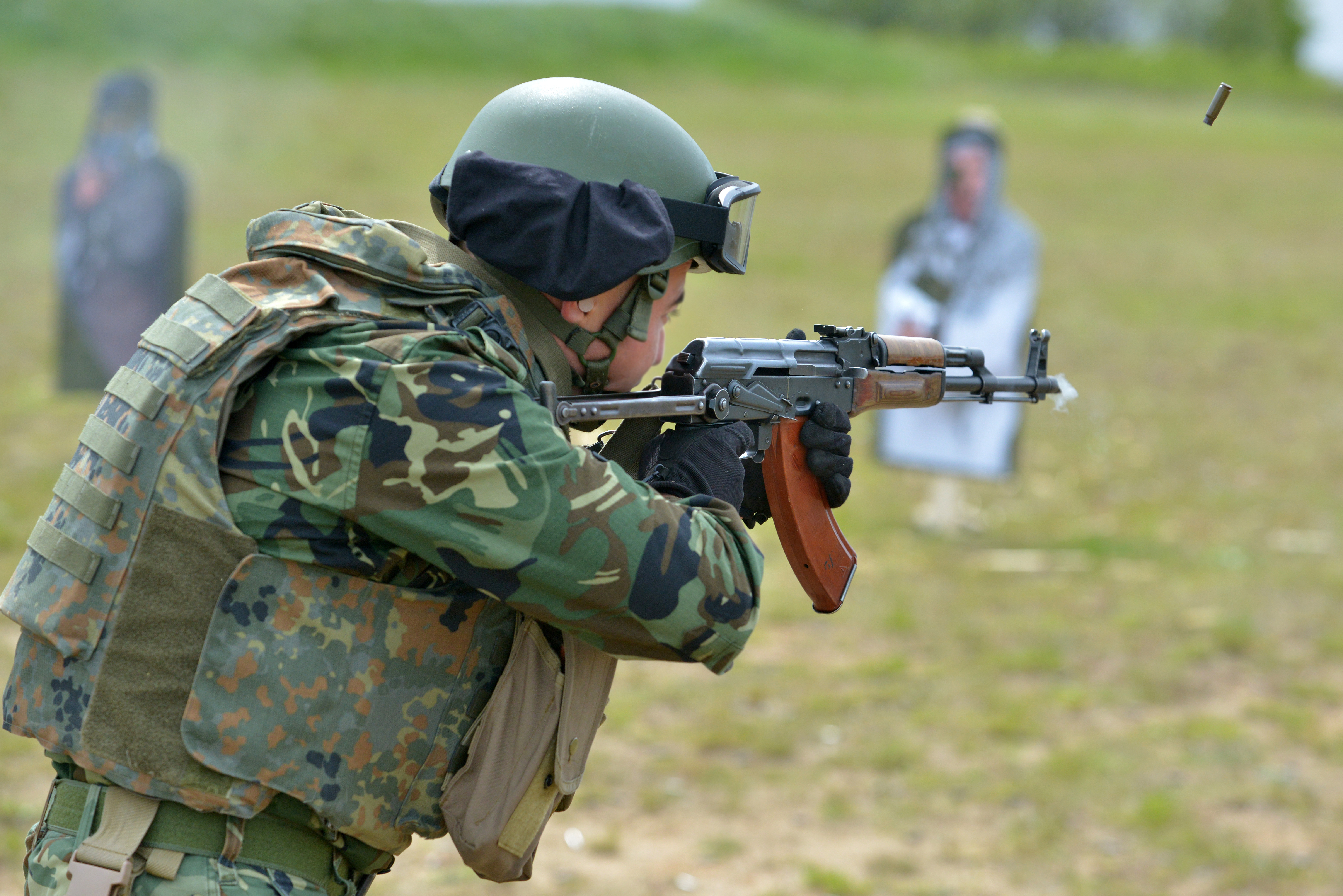 Bulgarian Special Operation Forces (SOF) conduct combat marksmanship training to prepare for Exercise Combined Resolve II at Grafenwoehr Training Area (GTA), Germany, May 15, 2014. This is the first time ever that Bulgarian SOF has been able to conduct live fire training at GTA. Combined Resolve II is a U.S. Army Europe-directed multinational exercise at the Grafenwoehr and Hohenfels Training Areas, including more than 4,000 participants from 15 allied and partner countries including special operations forces from the U.S., Bulgaria and Croatia interoperability training during the exercise to promote security and stability among NATO and European partner nations. (U.S. Army photo by Visual Information Specialist Gertrud Zach/Released)